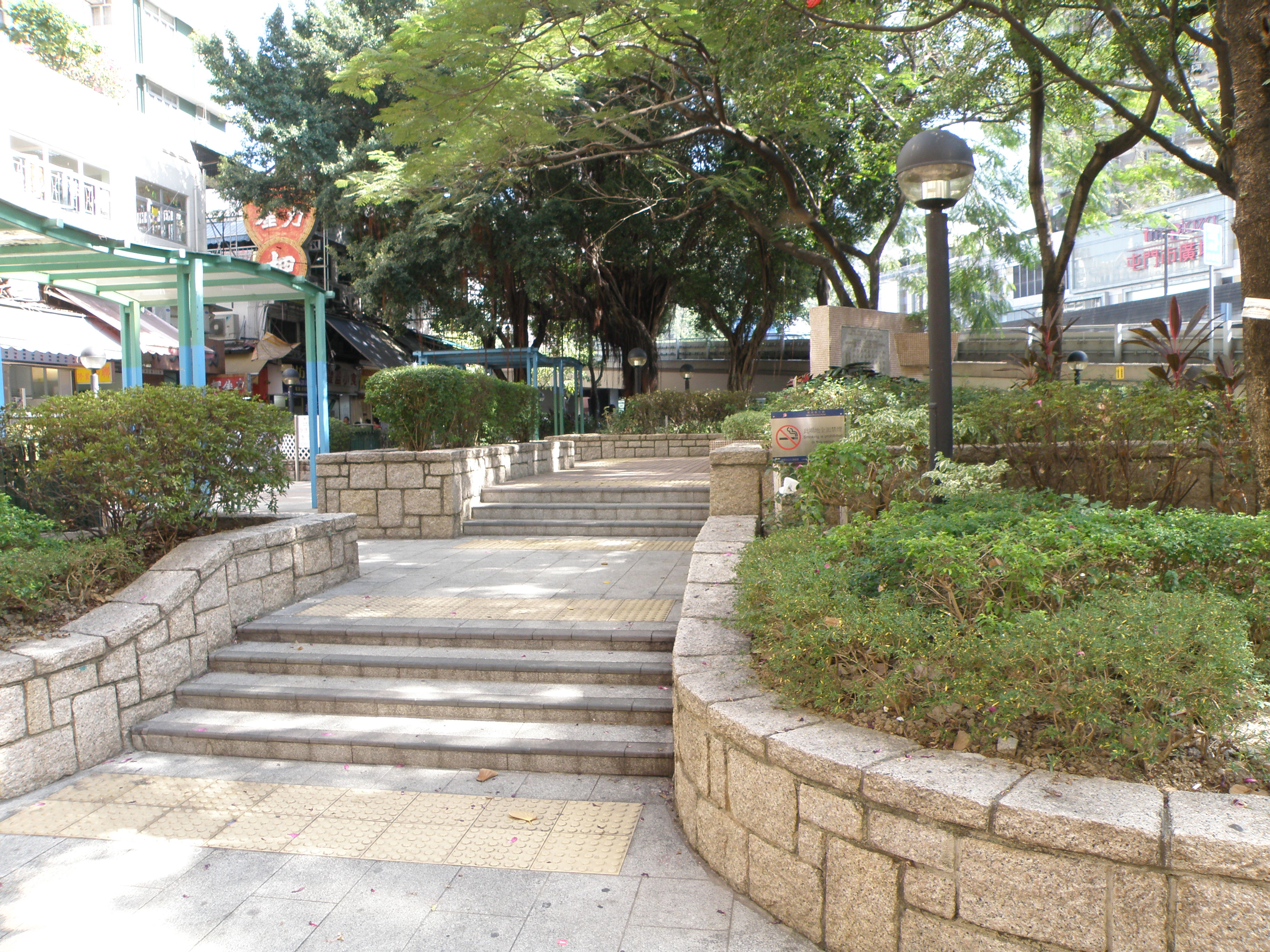 Deacon Chiu Park in Tuen Mun, Hong Kong.